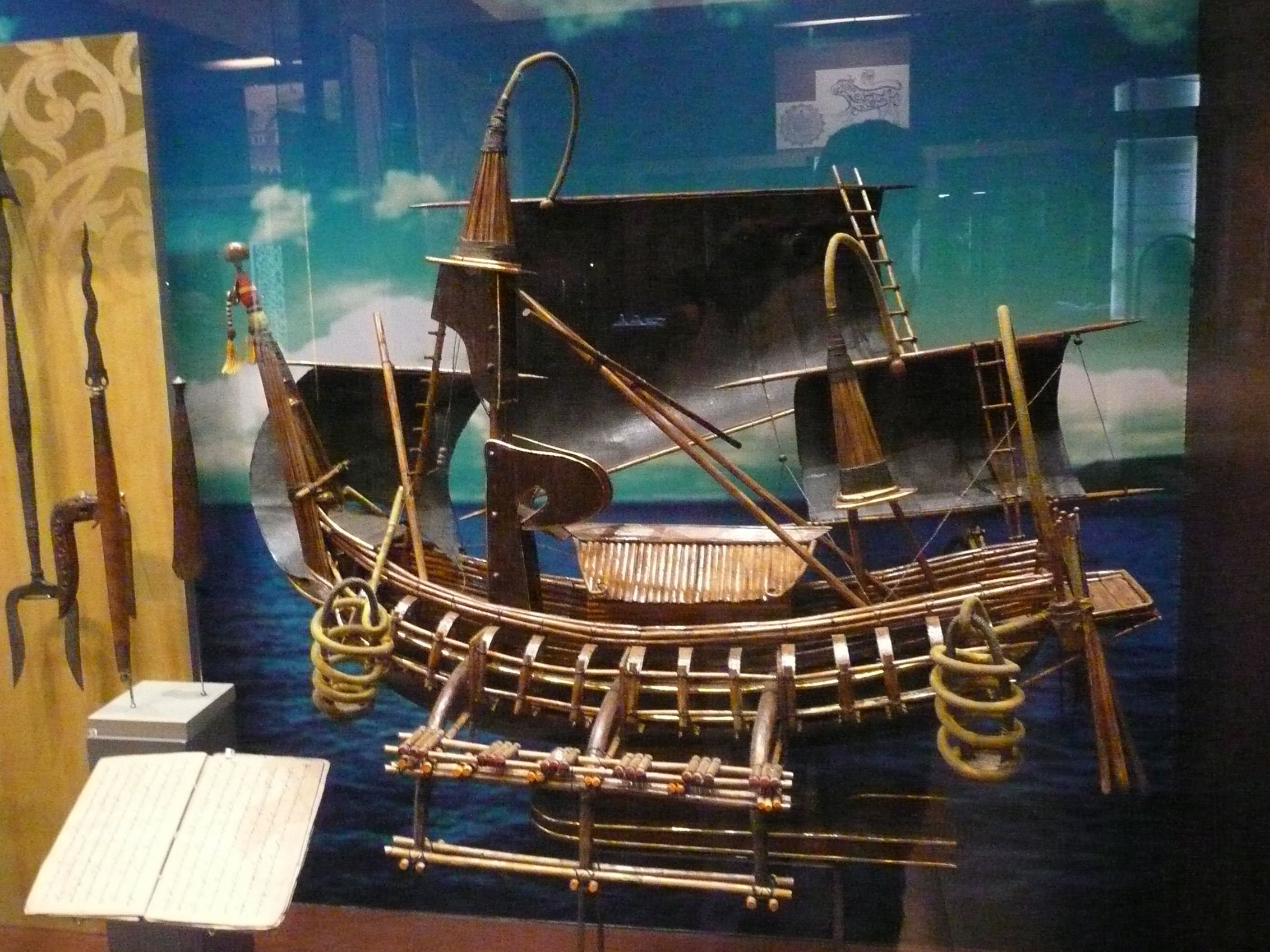 Model of Majapahit ship. This model represents a characteristic Majapahit ship, a bahtera, a product of the kingdom's expert craftsmanship which travelled the seas to trade and to acquire new territories.